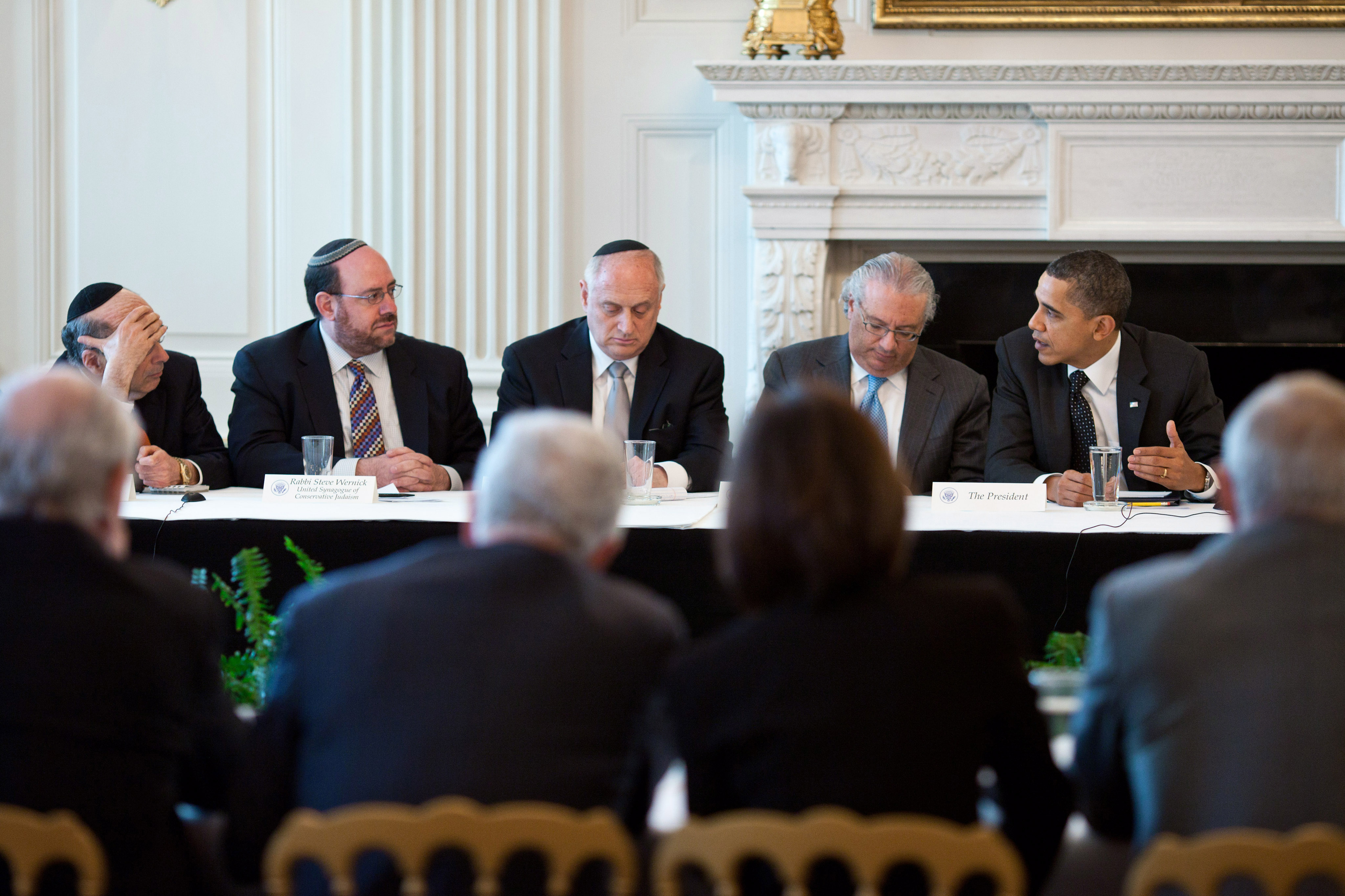 President Barack Obama meets with the Conference of Presidents of Major American Jewish Organizations in the State Dining Room of the White House, March 1, 2011. (Official White House Photo by Pete Souza)